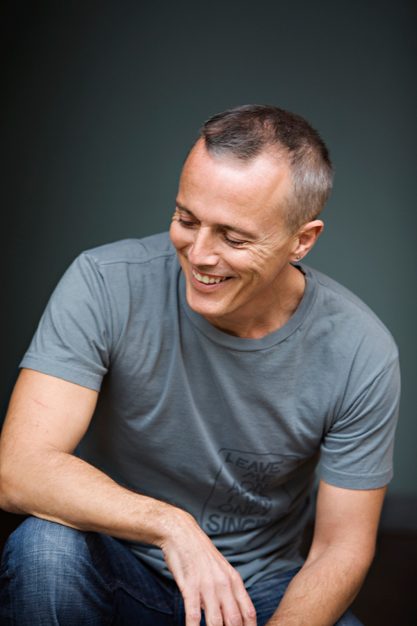 English musician, singer and songwriter Curt Smith.